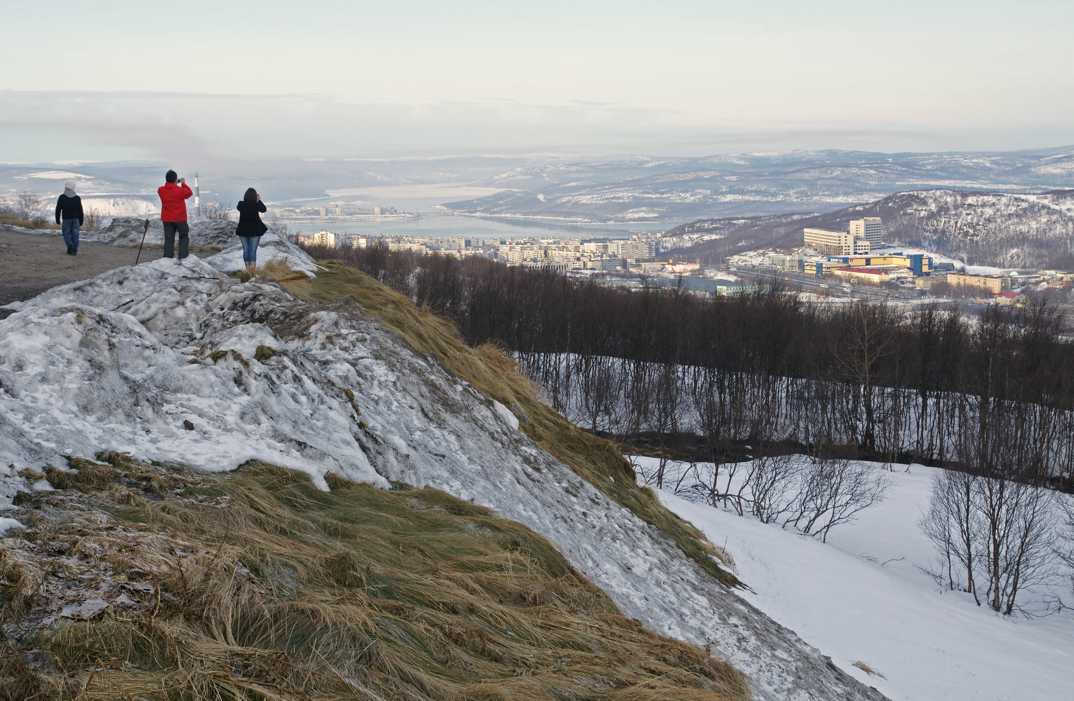 People photographing view of Murmansk from Omni Hotel Murmansk.